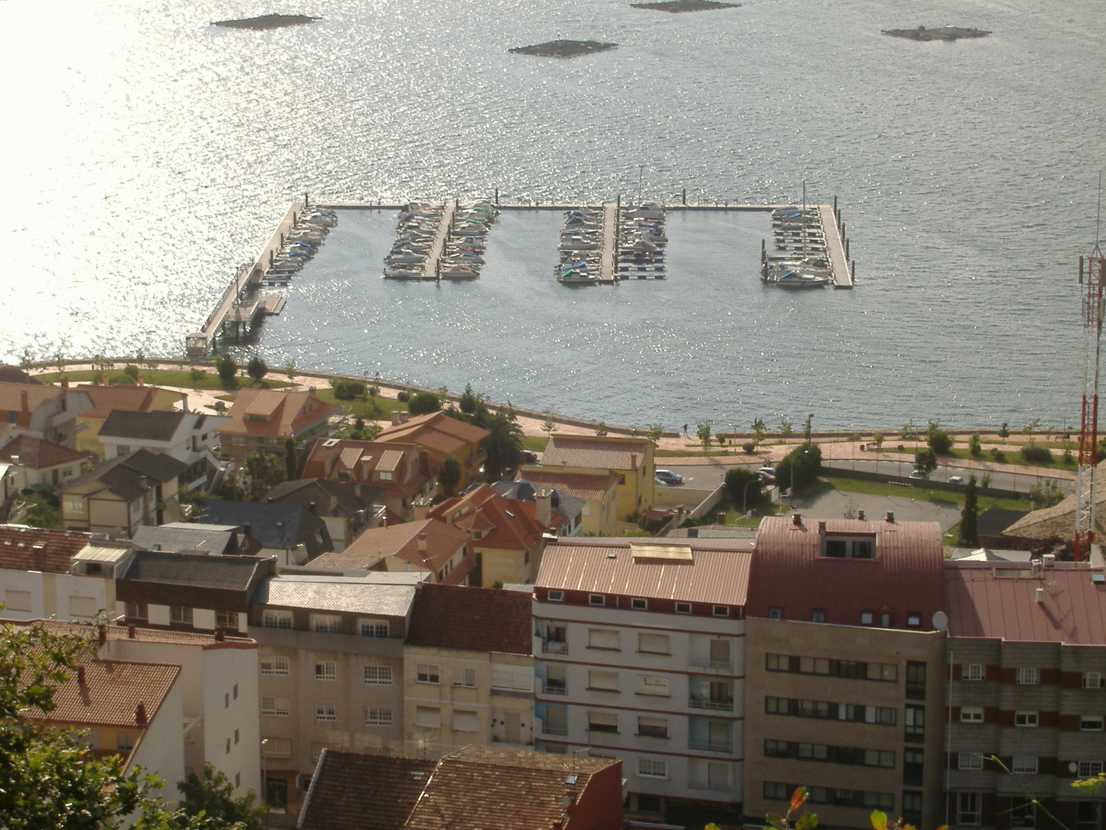 Panoramic view of the recreational port of Chapela and some buildings of the downtown.